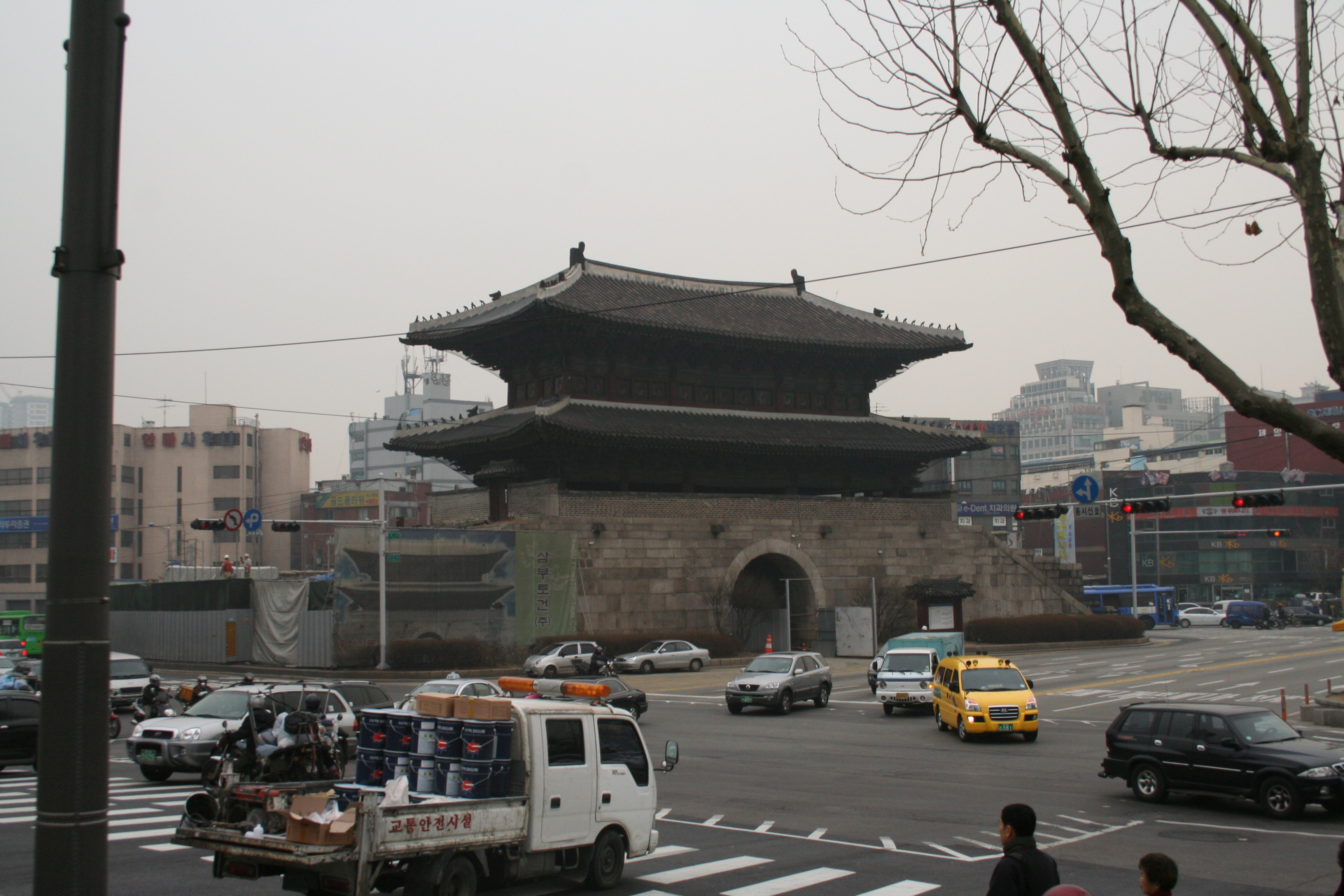 Taken by this user on Feb. 21. 2007 and it is released to the public domain. Category:Seoul